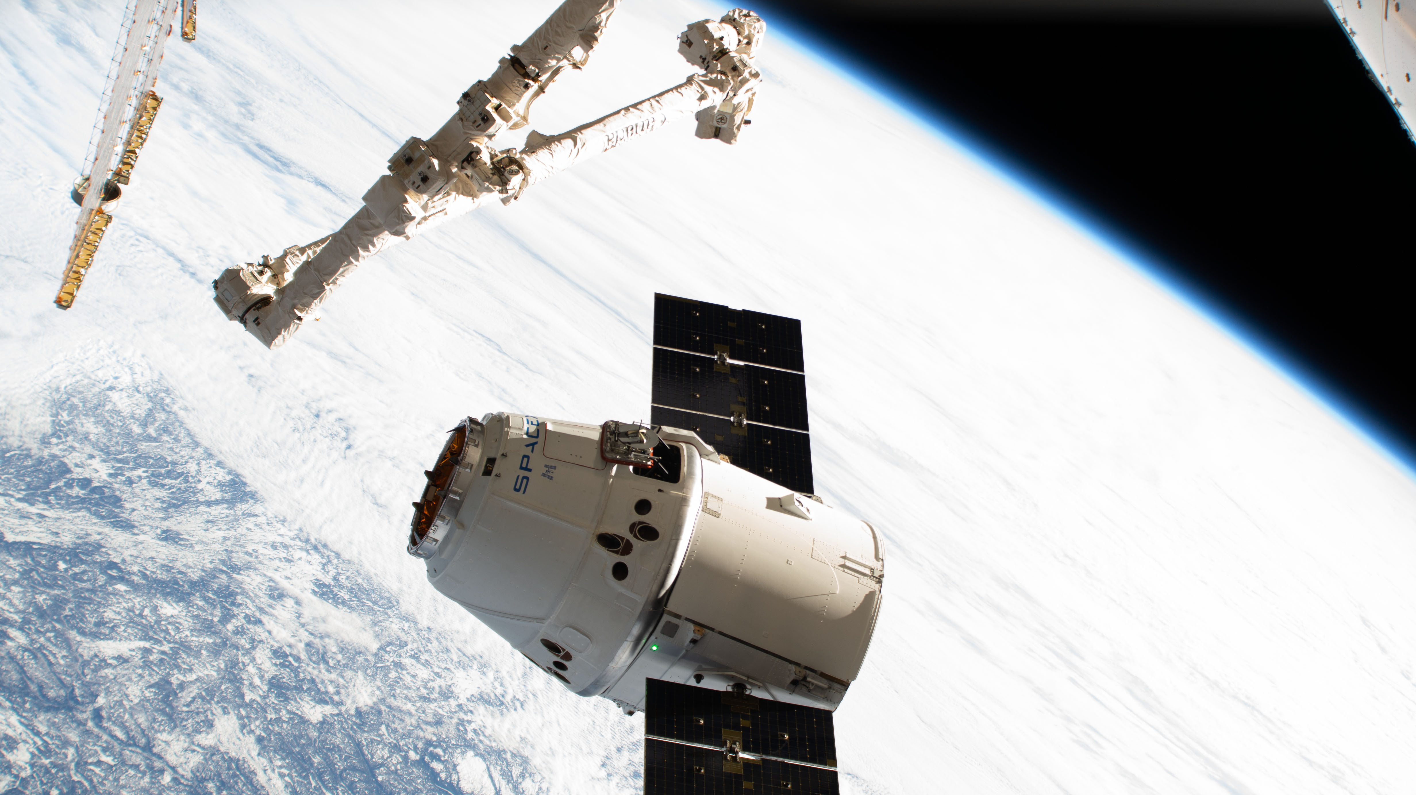 The SpaceX Dragon cargo craft reaches its capture point 10 meters from the International Space Station with the Canadarm2 robotic arm poised to reach out and grapple the resupply ship. Astronaut David Saint-Jacques would command the Canadarm2 to capture Dragon as astronaut Nick Hague backed him up and monitored systems.